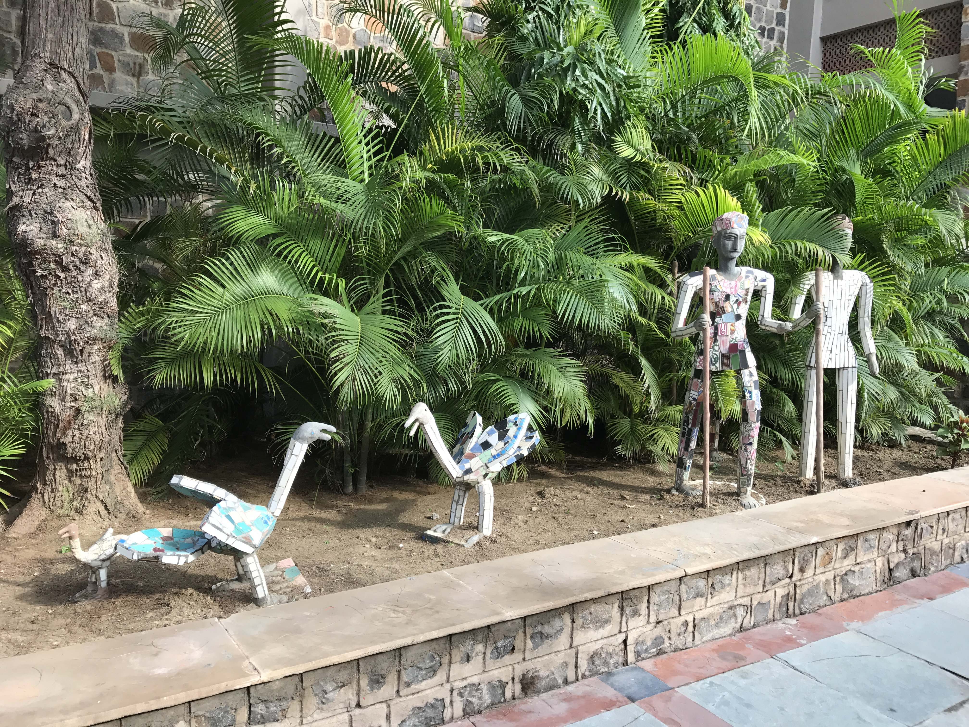 A few of the Nek Chand pieces at the American Embassy School campus in New Delhi.